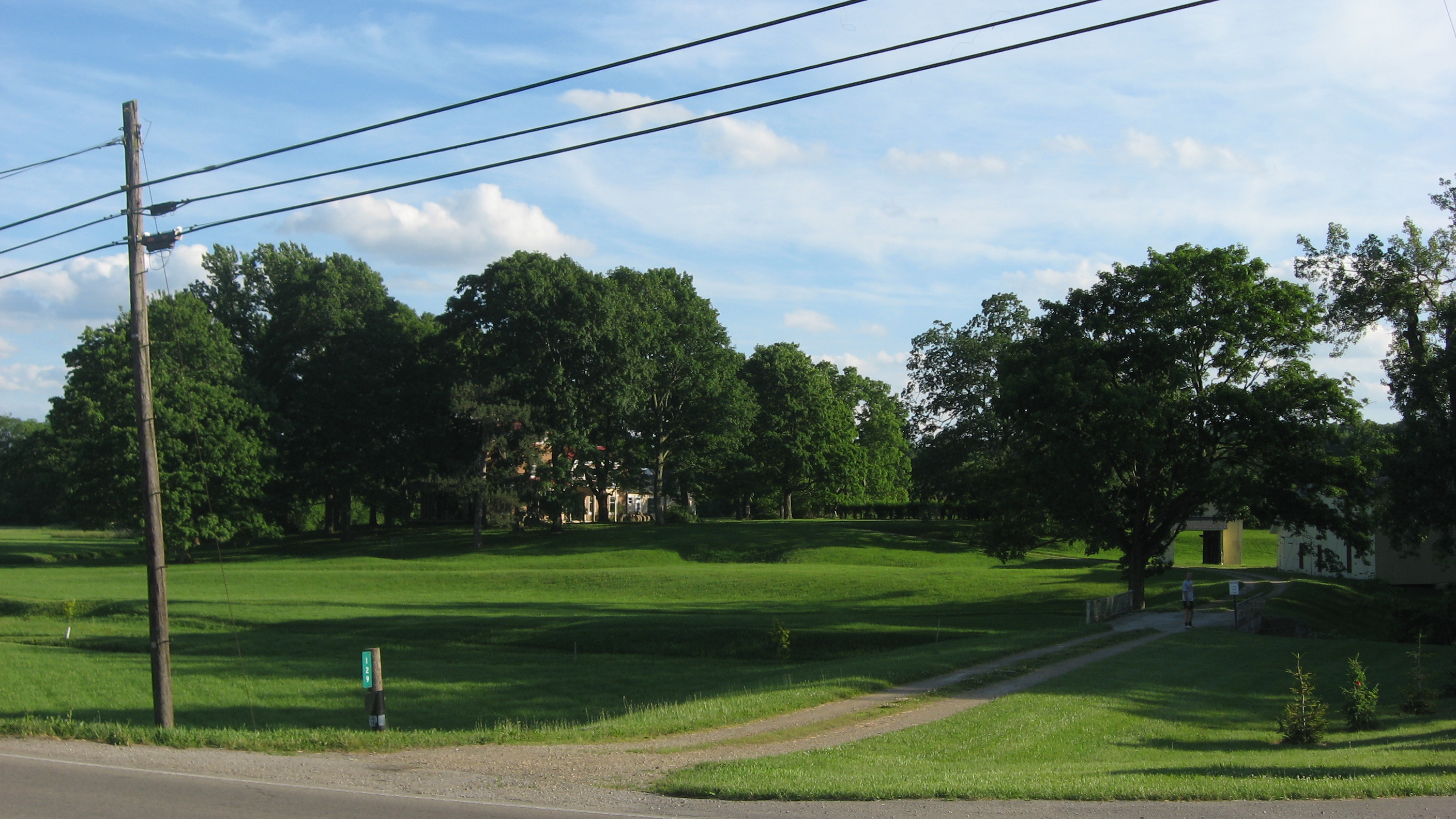 Grounds and buildings of the Norvall Hunter Farm, located at 129 S. Main Street (State Route 29) in Mechanicsburg, Ohio, United States. Built in 1850, it is listed on the National Register of Historic Places.